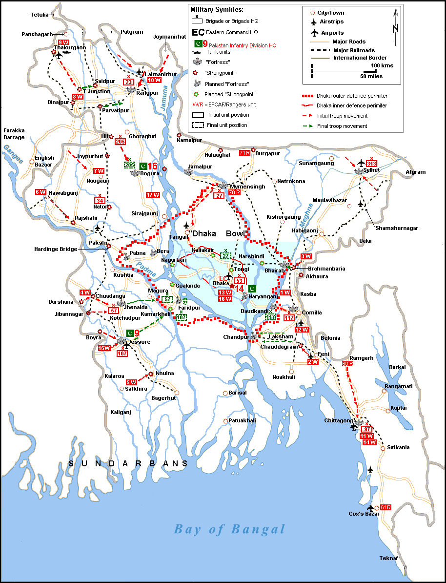 Pakistan Eastern Command plan for defending East Pakistan as of August 1971.